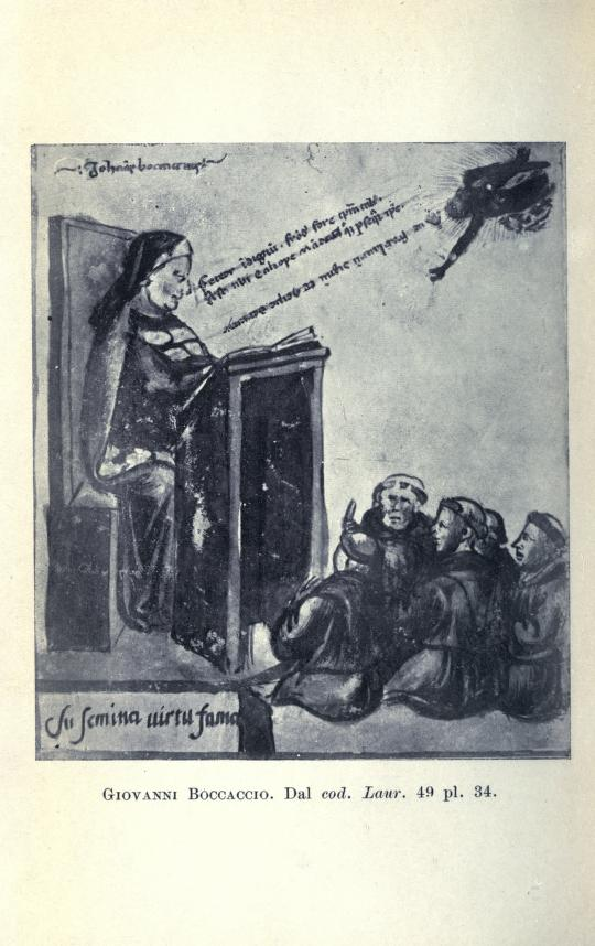 Giovanni Boccaccio as a teacher, miniature taked by Codex Laurenziano 49 Pluteo 34, conserved in Biblioteca Medicea Laurenziana, Florence